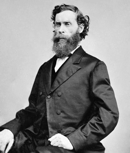 John Peter Cleaver Shanks (June 17, 1826 – January 23, 1901) was a U.S. Representative from Indiana.